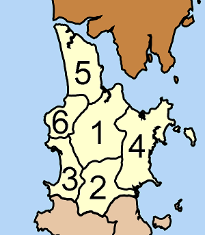 Map of Thalang district, Phuket province, Thailand, with the communes (tambon) numbered. Thep Krasattri (เทพกระษัตรี) Si Sunthon (ศรีสุนทร) Choeng Thale (เชิงทะเล) Pa Khlok (ป่าคลอก) Mai Khao (ไม้ขาว) Sakhu (สาคู)